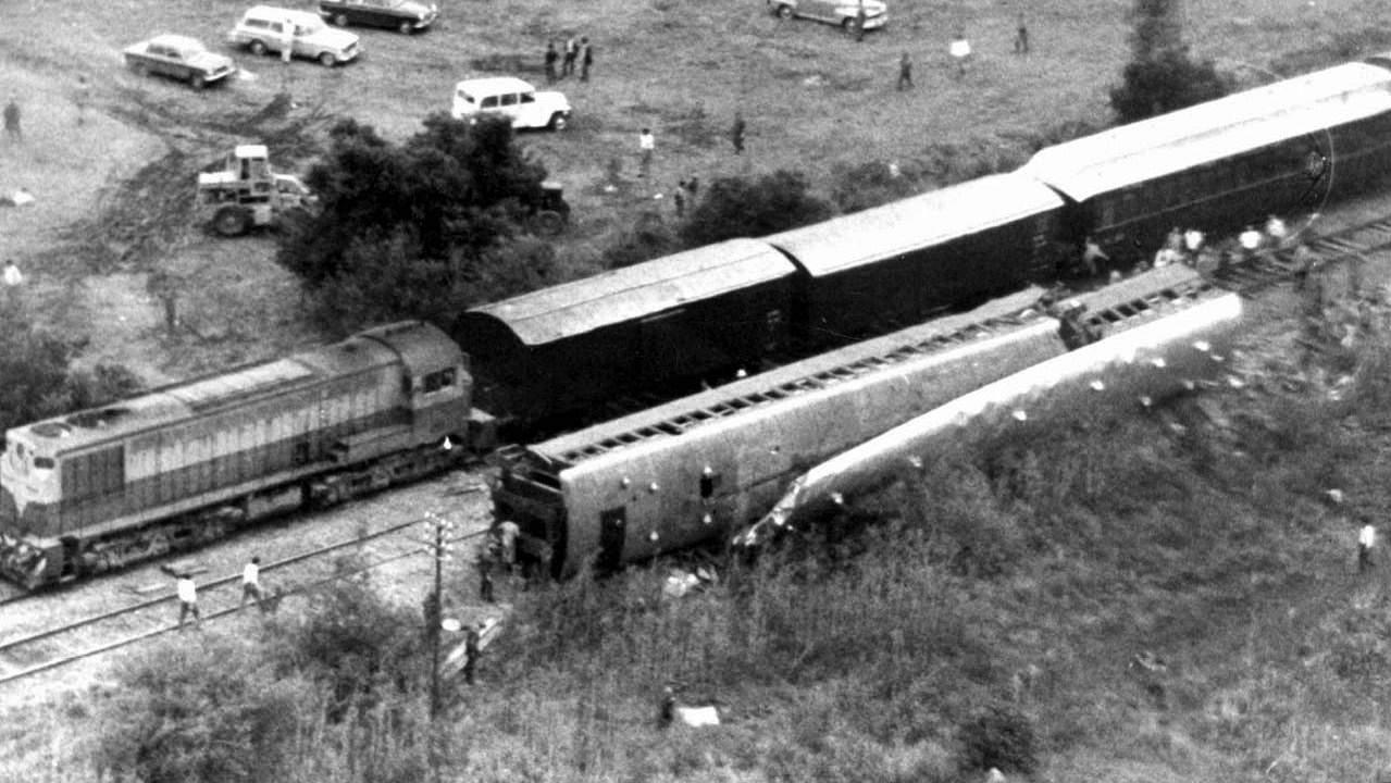 The Benavídez rail disater.